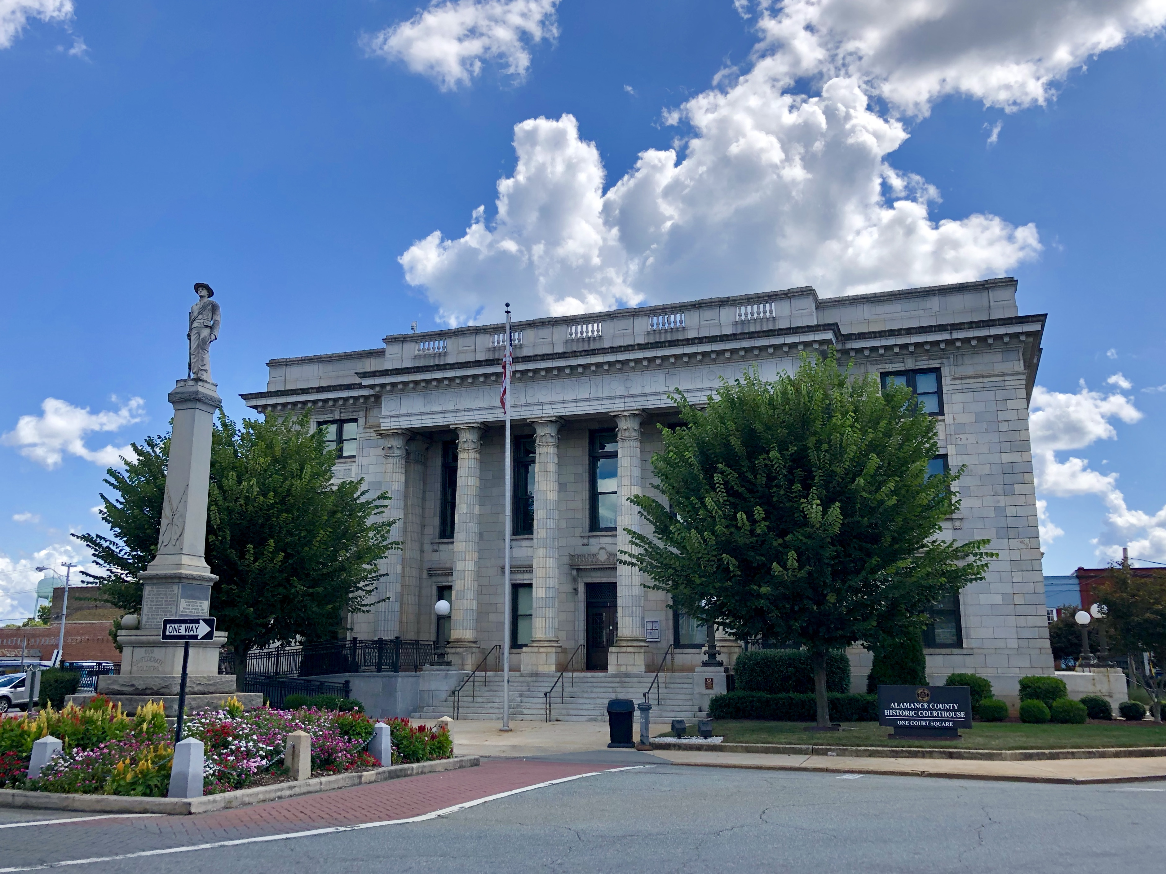 The Alamance County Courthouse is a Classical Revival-style structure located at the center of the downtown business district in Graham, North Carolina, and was constructed in 1924 to replace an earlier courthouse.